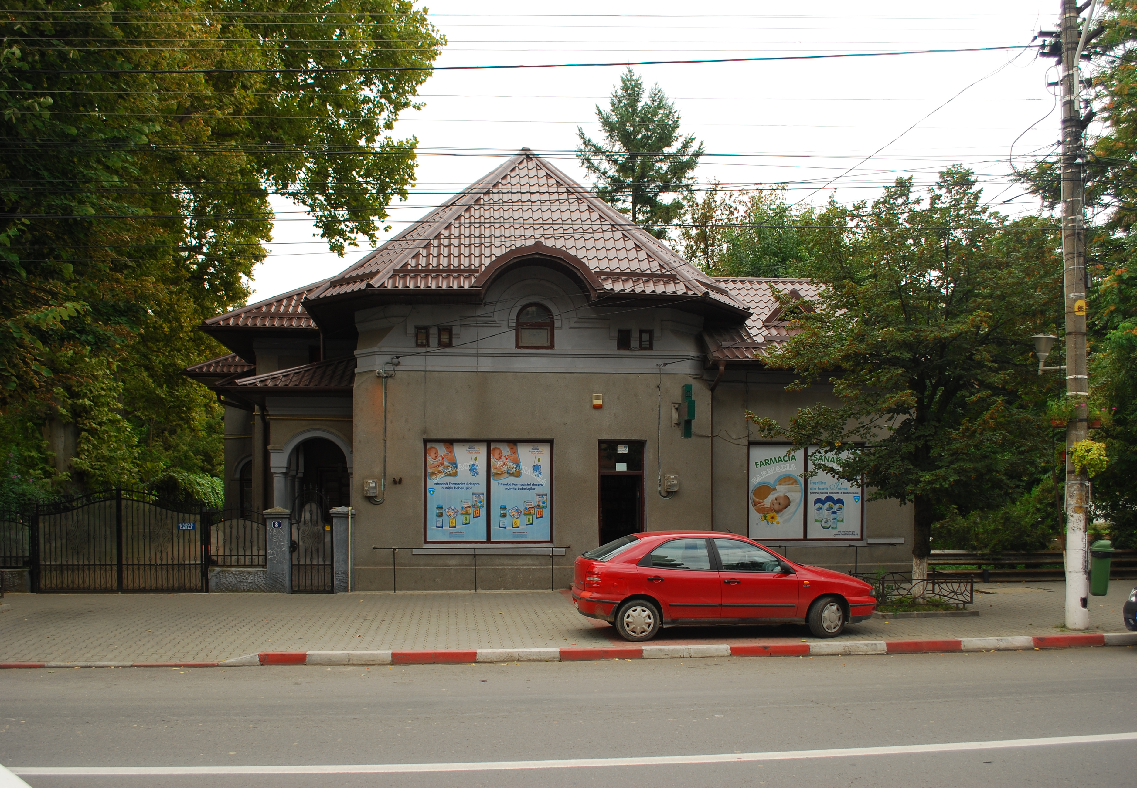 House in Găești, Dâmbovița County, RomaniaRomână: Casă în Găești, județul Dâmbovița, România